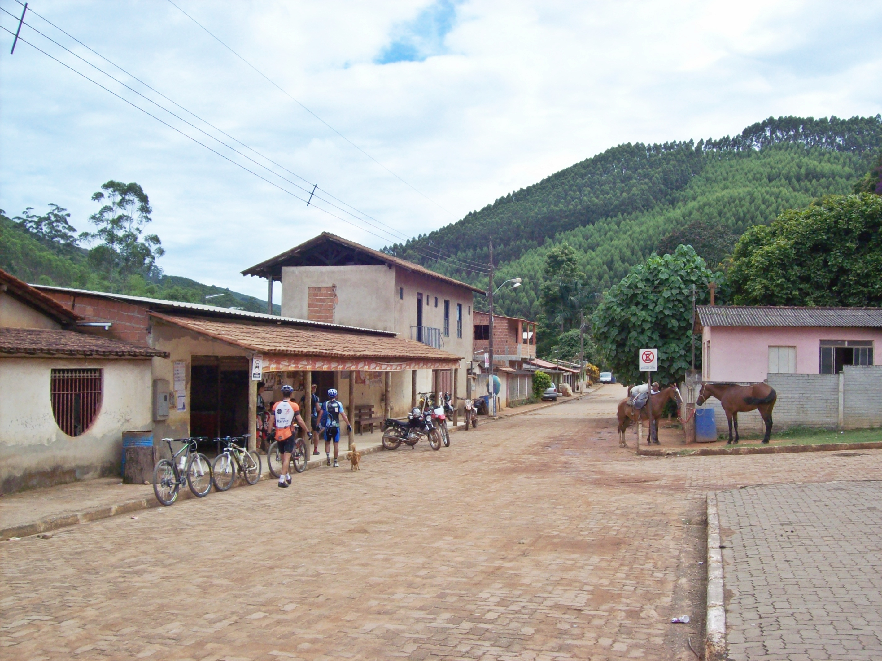 Main street of the São José dos Cocais village, in Coronel Fabriciano, Minas Gerais, Brazil.